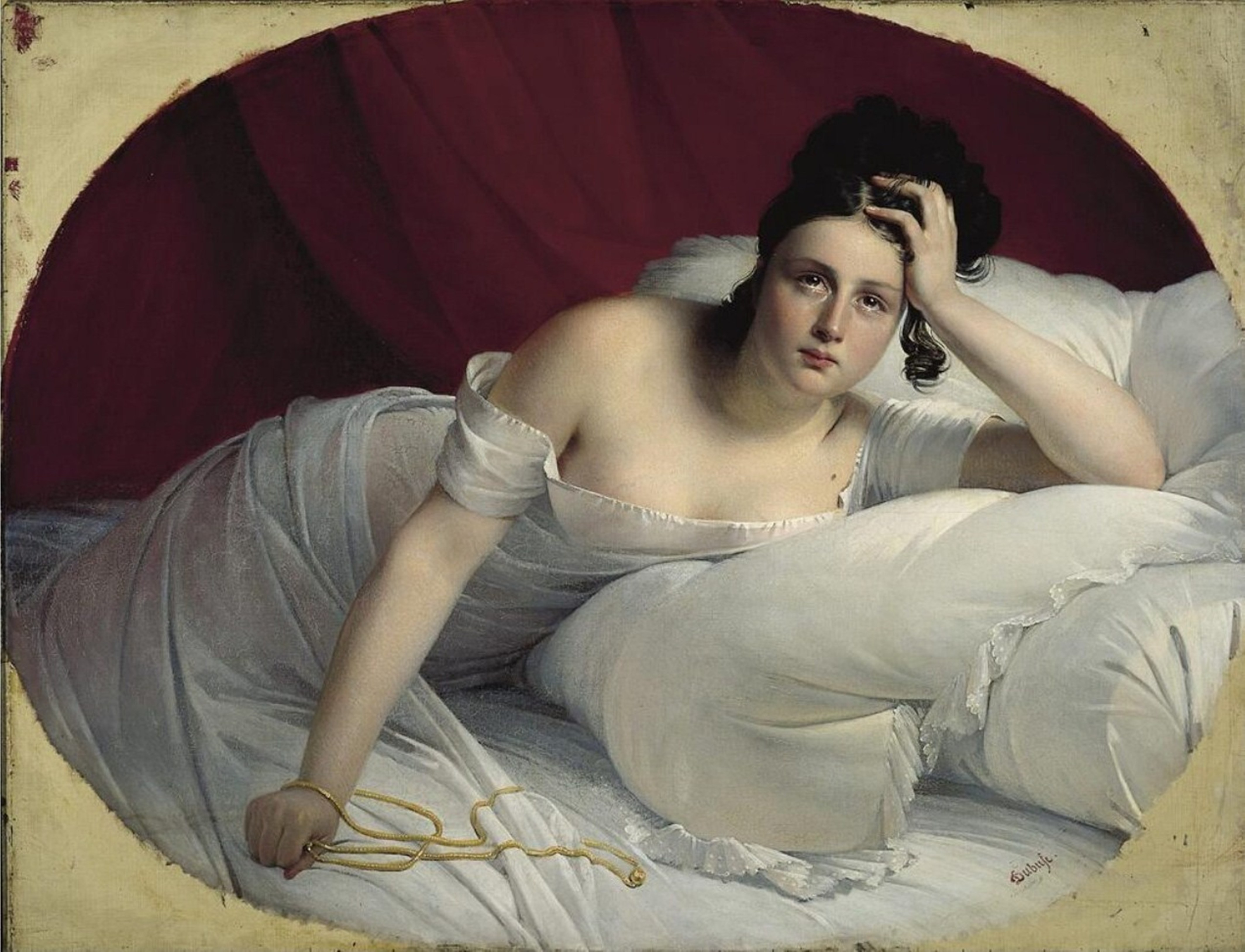 Claude-Marie Dubufe develops a production of fantasy figures. The titles of these figures in bust or half-body, evoke feelings and states of mind such as The Regrets, The Memories, The Surprise, The Worried, The Terror, The Discretion or again The Pain.